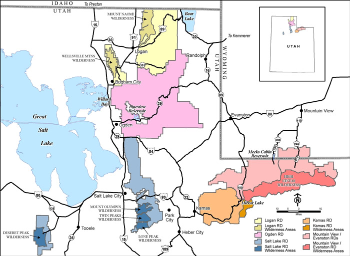 Map of designated Wasatch-Cache NF wilderness areas — in the Wasatch-Cache National Forest, northeastern Utah.